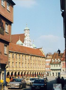 Market square in Memmingen with the town hall in the background.